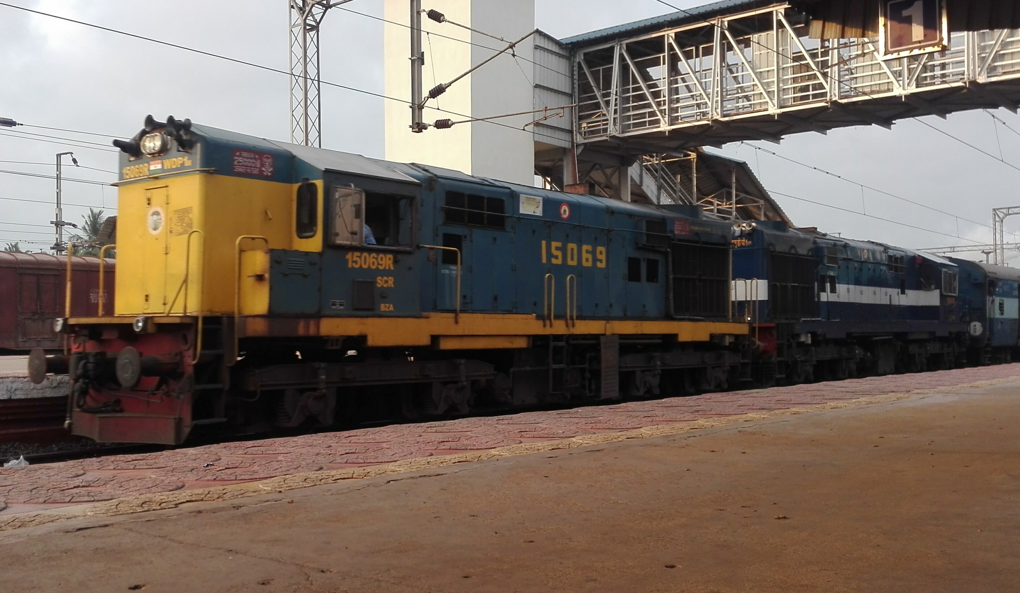 WDP1M twin locomotives bringing Seshadri Express into Samalkot Junction